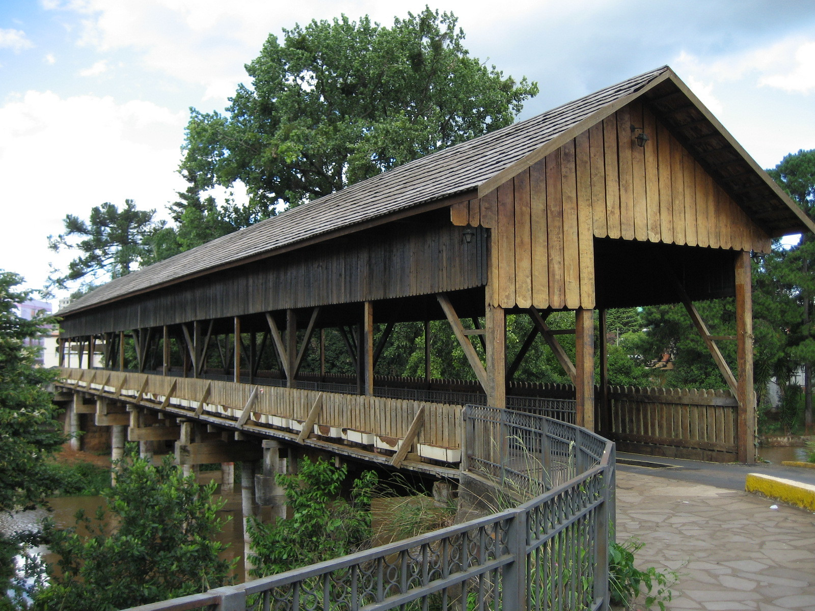 Antonio Bortolon Bridge - Caçador - SC - Brazil Author: Edson L. Pedrassani Source: Own work 2007-01-20